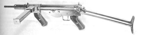 Image of Austen submachine gun.